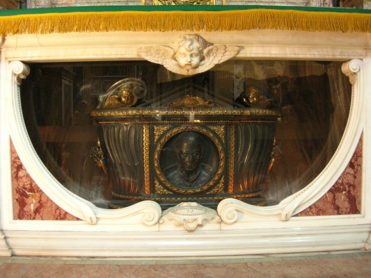 Urn with the relics o St. Joseph Pignatelli, in the Church of Gesù, at Rome, ca. 1815